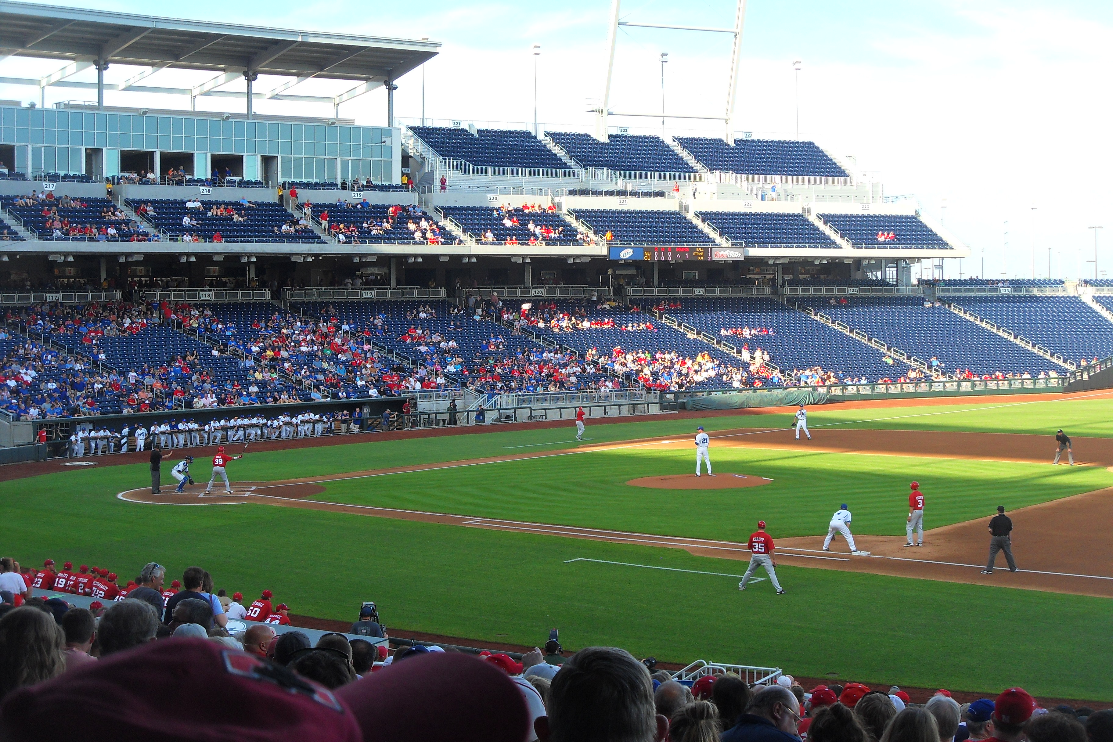 Creighton playing Nebraska at TD Ameritrade Park in 2012